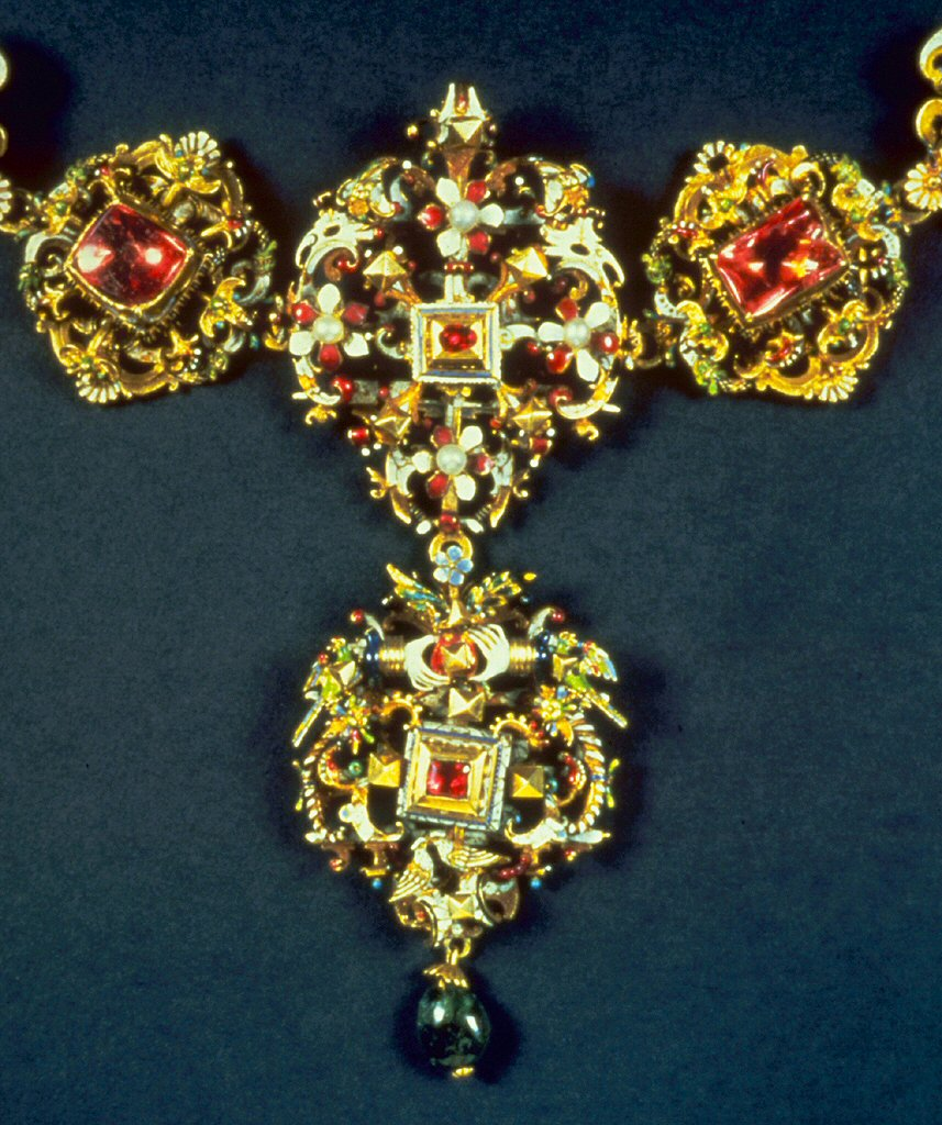 This elegant, jeweled wedding collar (incomplete) was reputedly worn by the scion of a powerful Hungarian noble family allied with the Habsburgs, Palatine Miklos Esterhazy (aka. Nikolaus Esterházy) , at his wedding in 1611. The design evokes a stylized flower garland interspersed with references to love and marriage, including right hands clasped around a heart (union based on good faith and love), doves (affection), cornucopias (prosperity), and forget-me-nots (loyalty). Such a piece of ritual jewelry could be valued as a striking symbol of the fundamental importance of marital alliances to the Habsburgs. The associated ornament has two hooks on the back for fastening it to clothing.